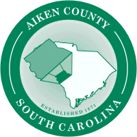 Seal of Aiken County, South Carolina.